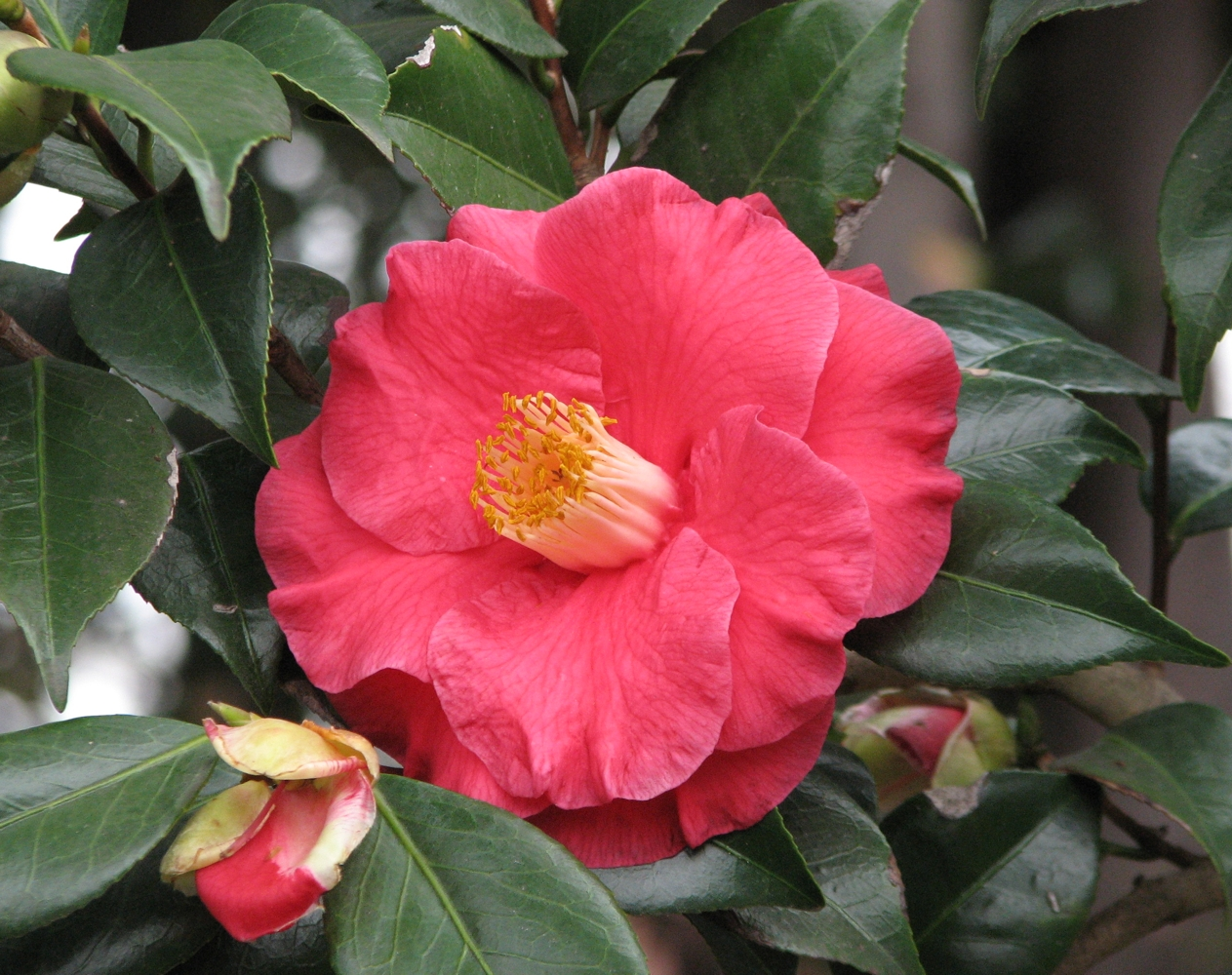 Camellia japonica 'The Czar'.(cultivated, labelled) Flower of the original plant. Royal Botanic Gardens, Melbourne